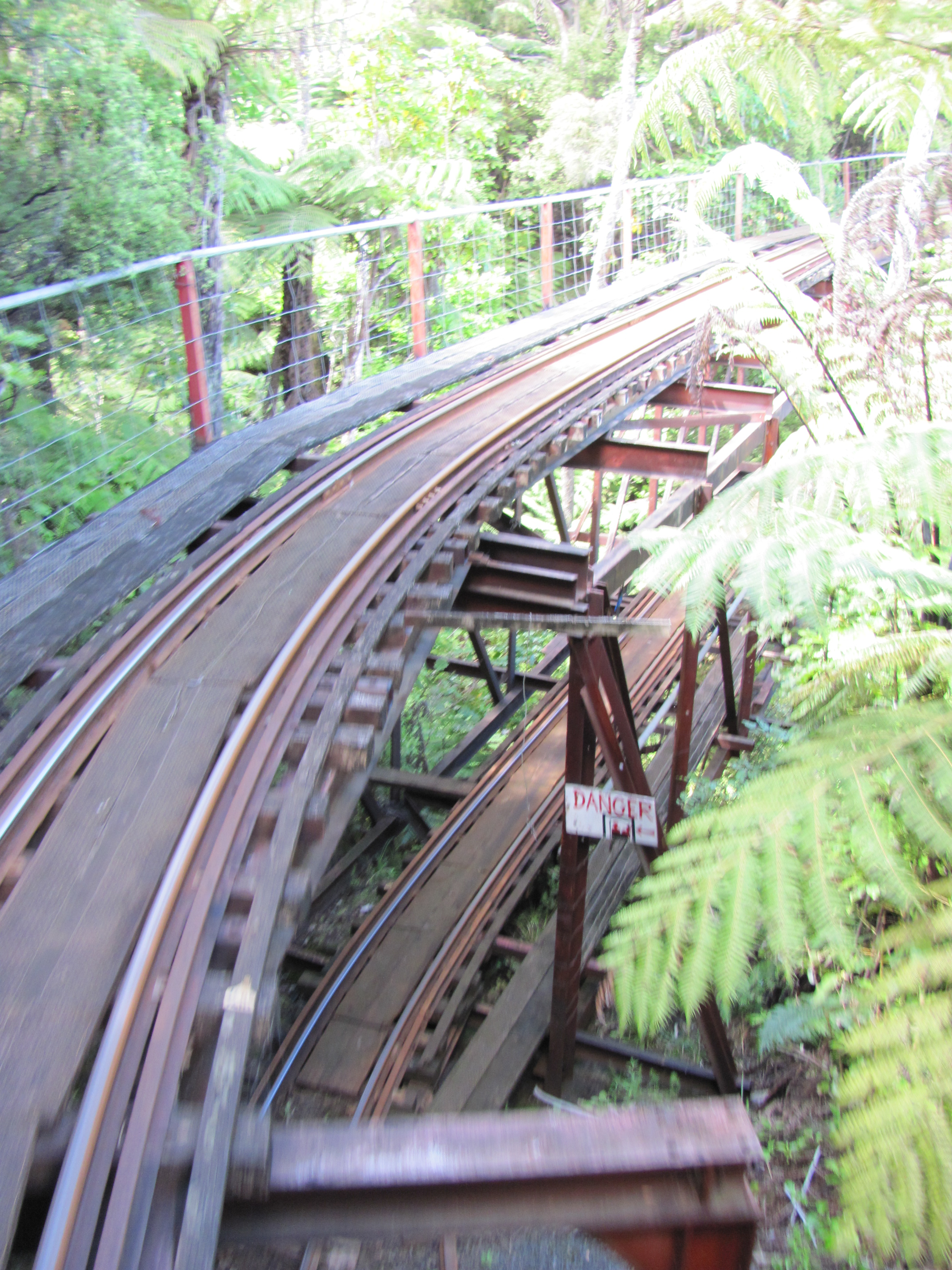 Two storey bridge of DCR